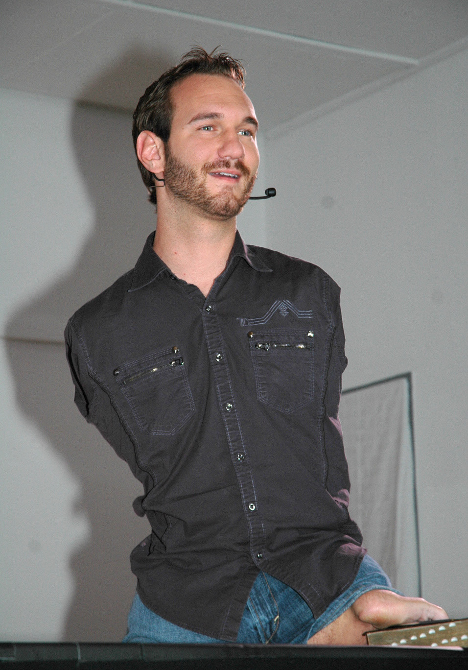 Nick Vujicic speaking in a church in Ehringshausen, Lahn-Dill-Kreis, Hesse, Germany.